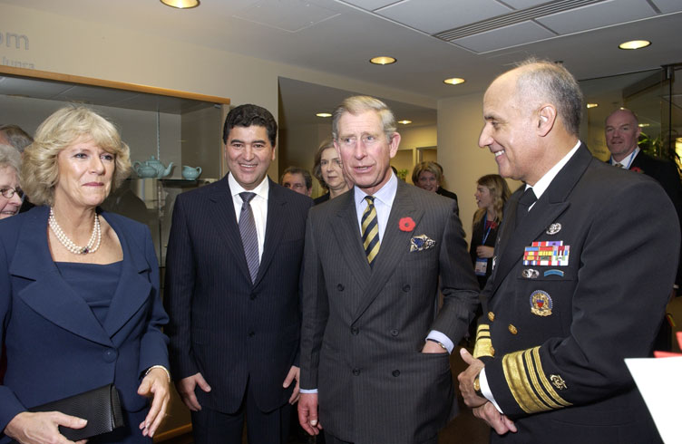 Former NIH Director Dr. Elias Zerhouni (l) welcomes Prince Charles (second from r) and the Duchess of Cornwall to NIH for a briefing on osteoporosis with Surgeon General Richard Carmona (r) and other health officials